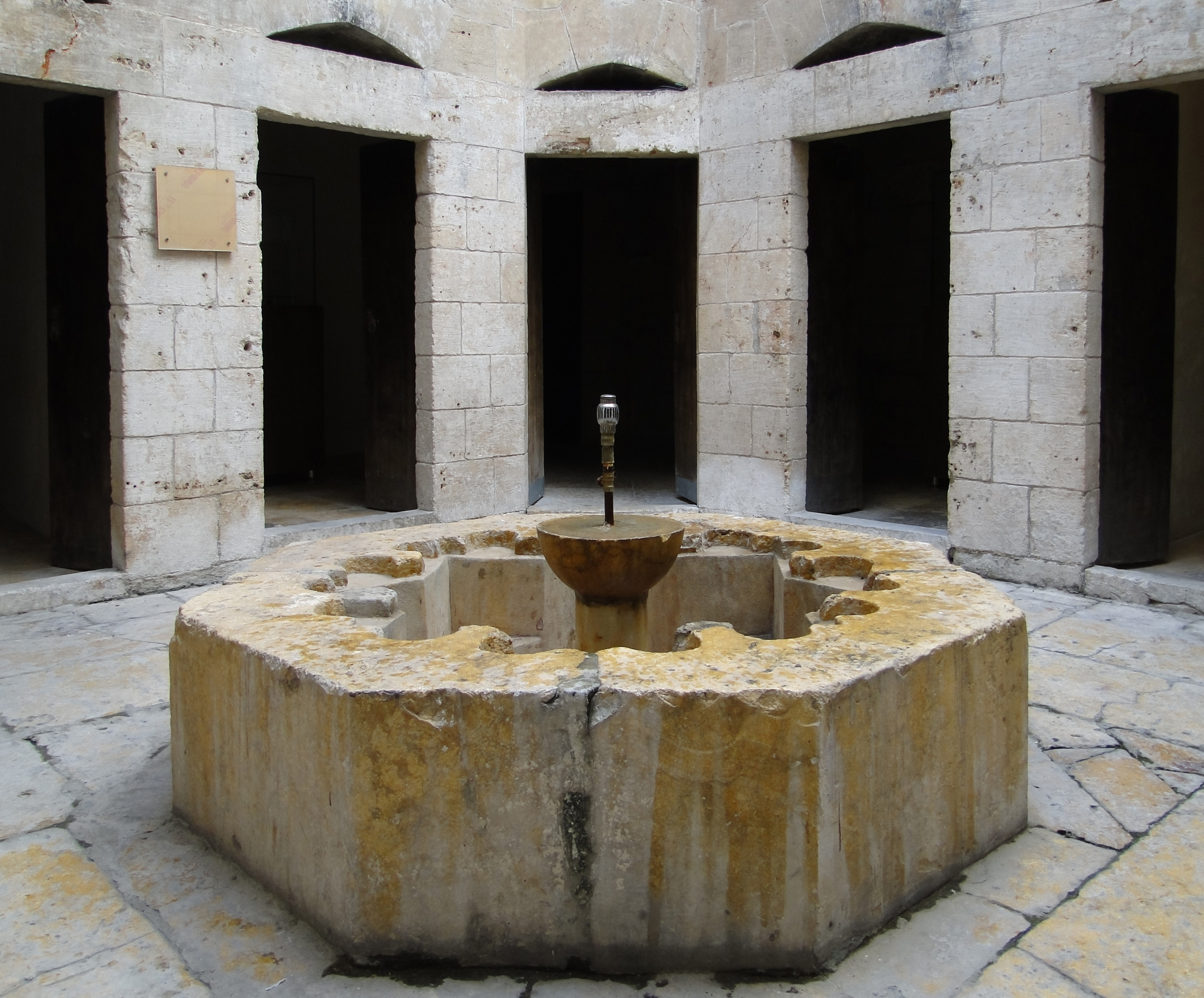 Şadirvan fountain in the Bimaristan Argun, Aleppo, Syria